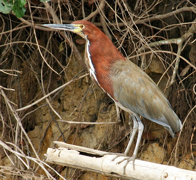 A Rufescent Tiger Heron in the Pantanal of Mato Grosso do Sul, Brazil.